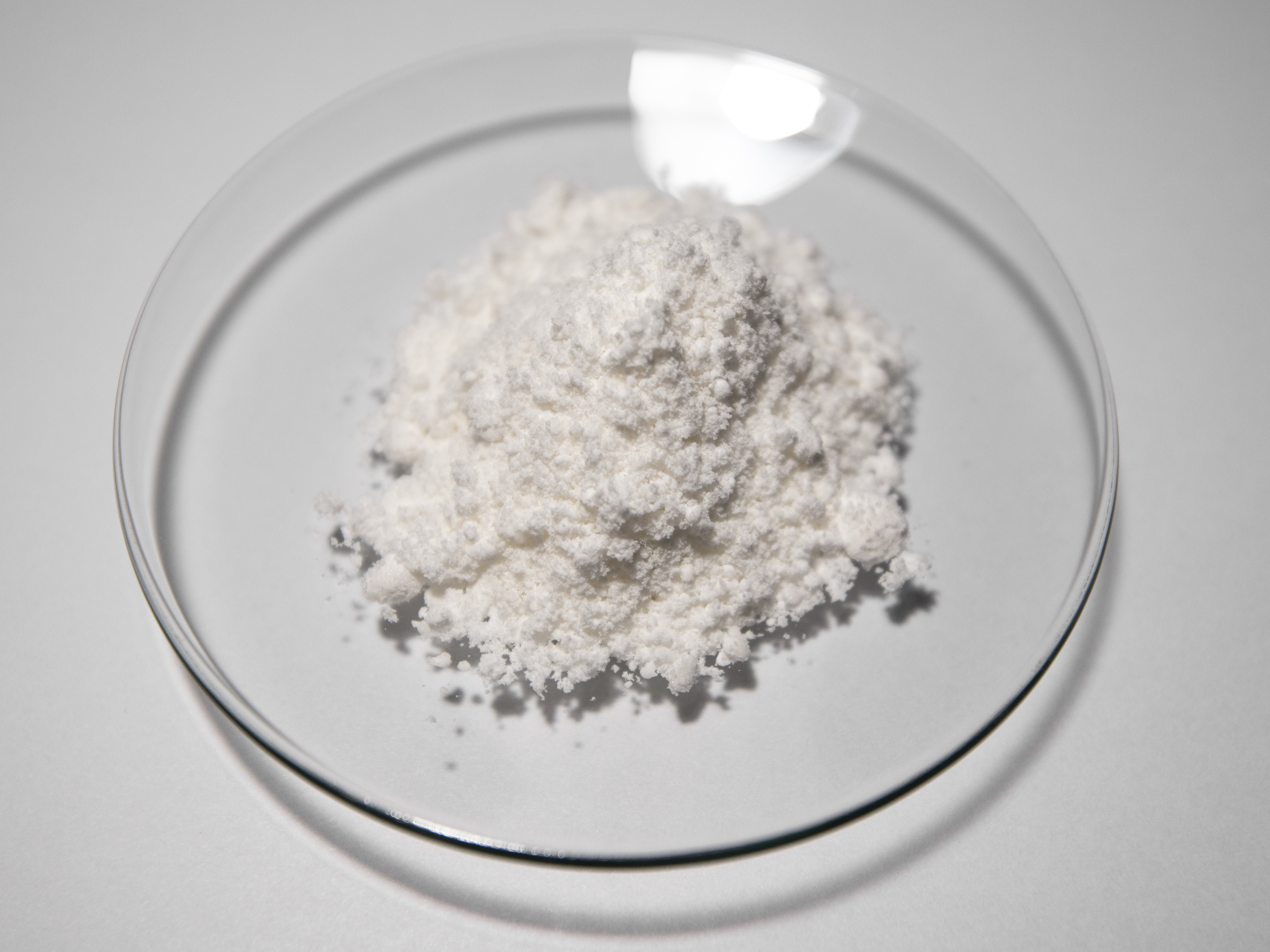 Pure TCPO